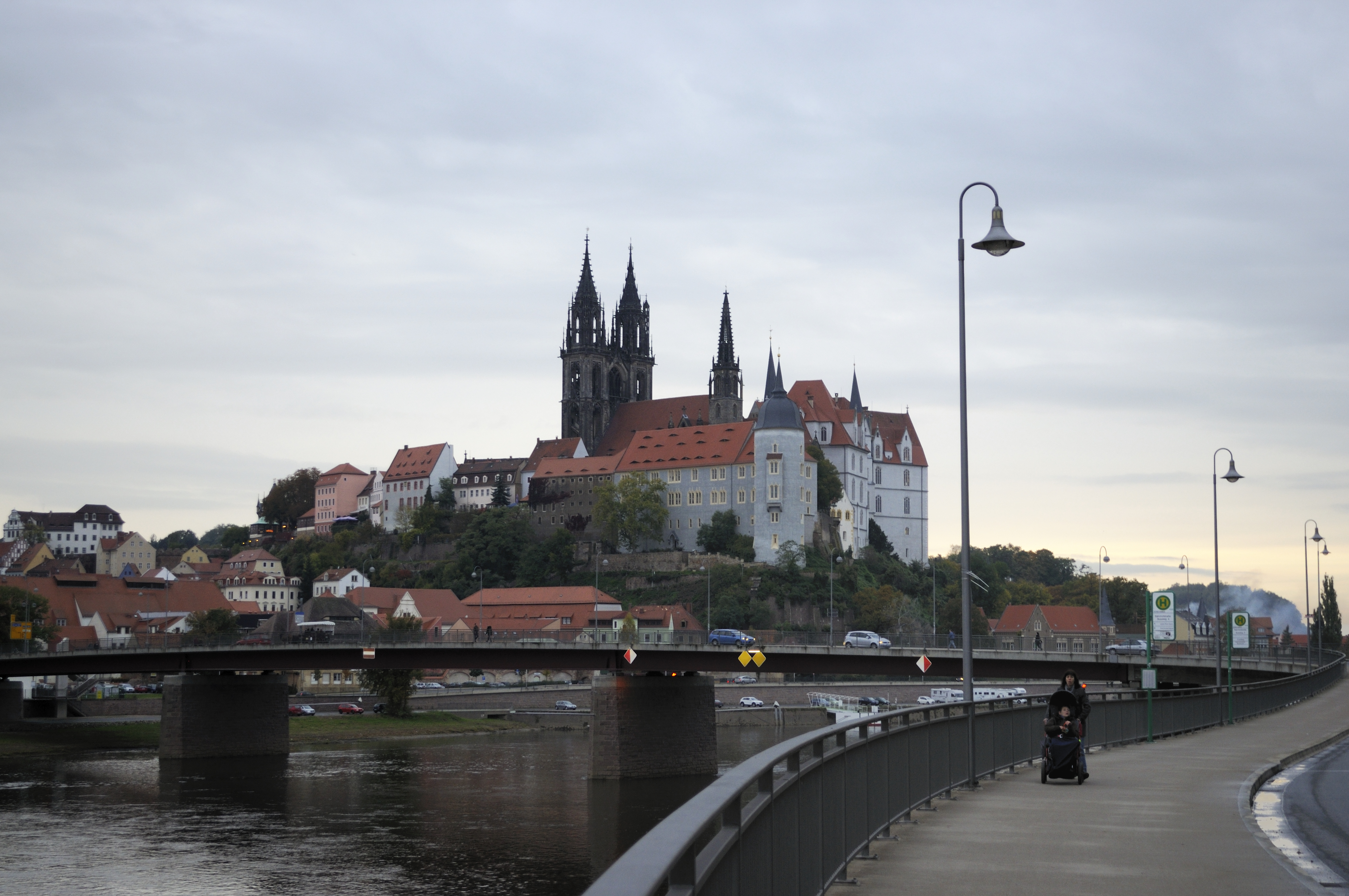 Picture taken in Meissen while dewiki’s mentorship program meetup. Albrechtsburg mit Altstadtbrücke.